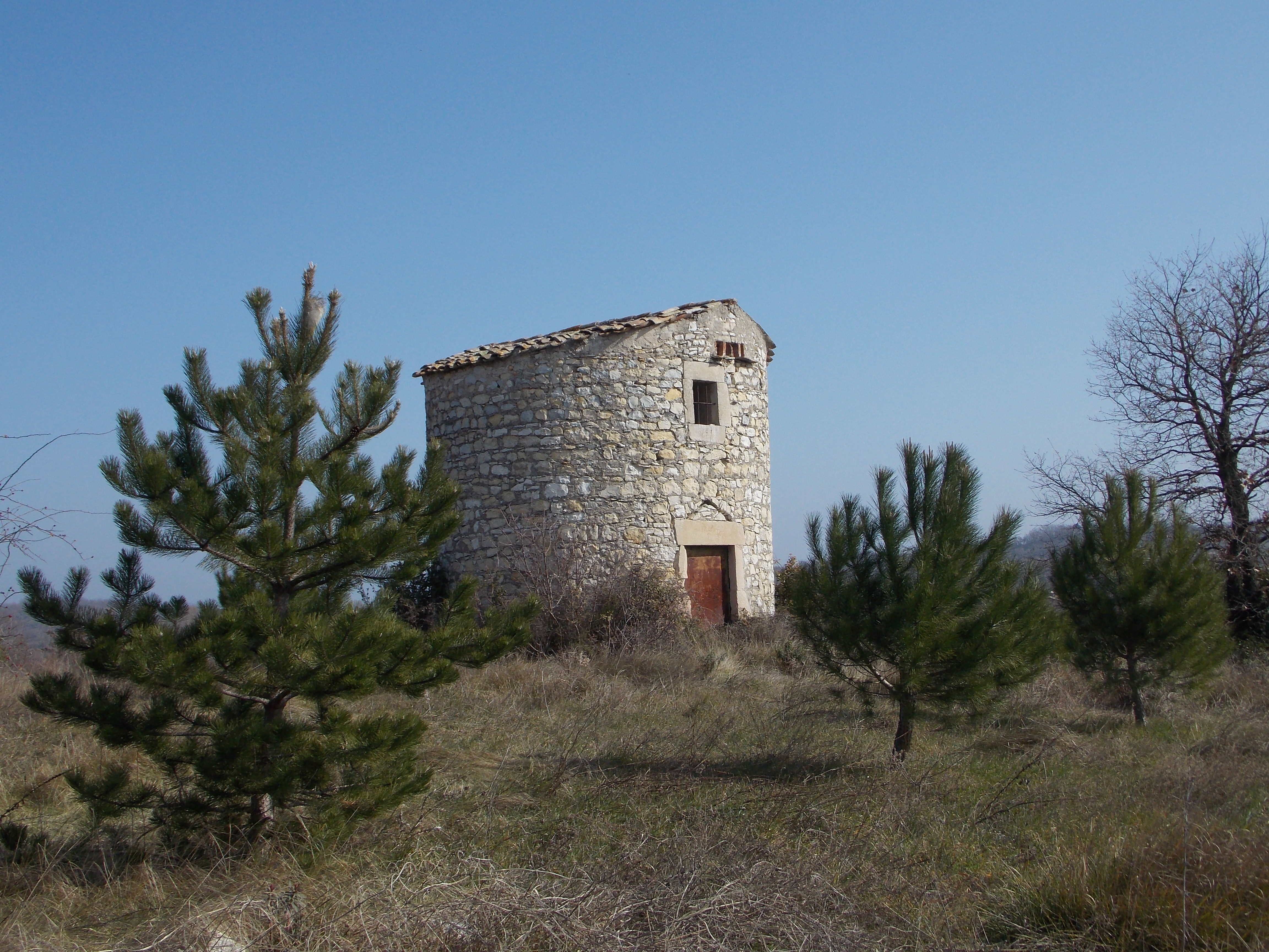 Vieux moulin à vent de Ners.